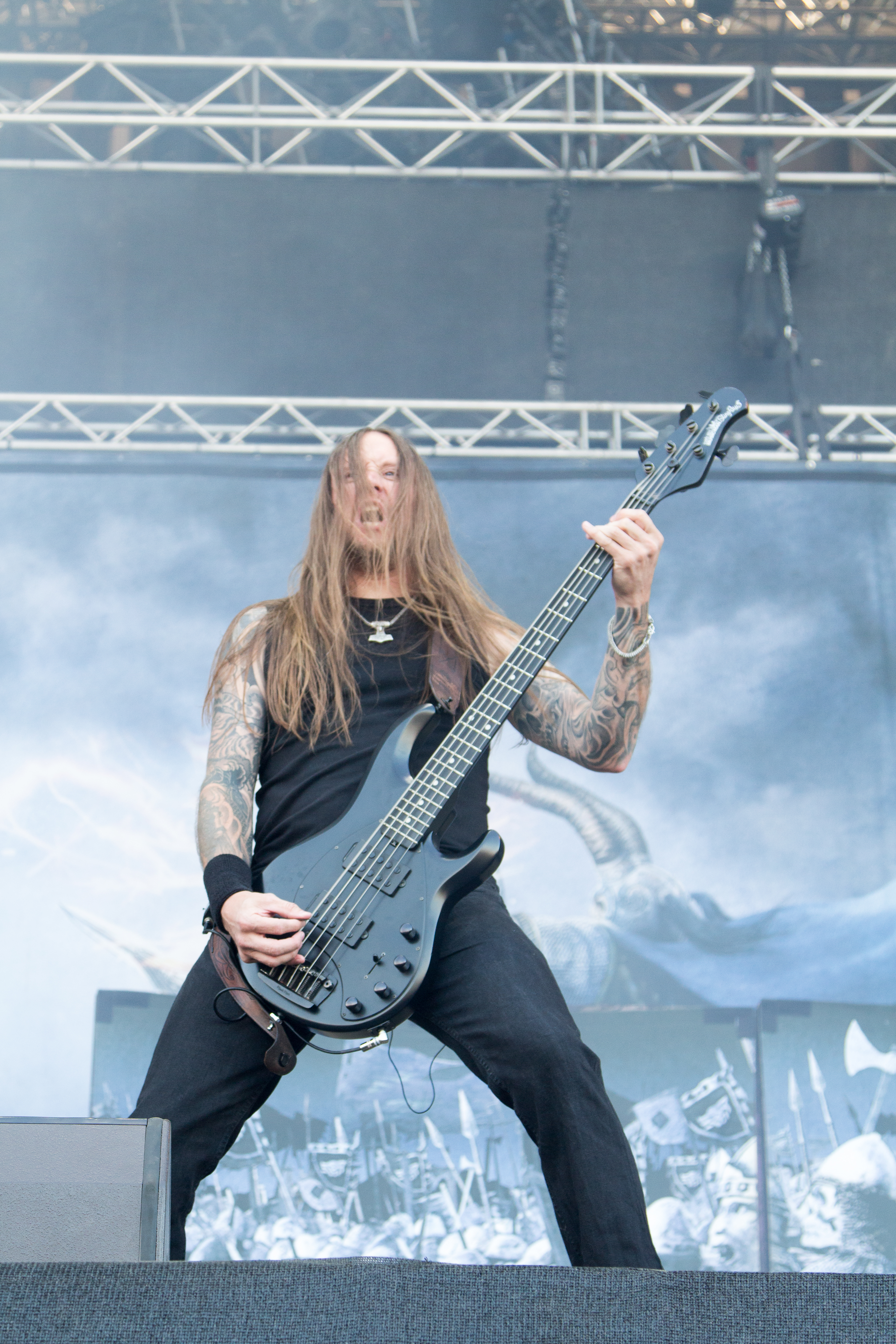 Ted Lundström from Amon Amarth at Nova Rock 2014